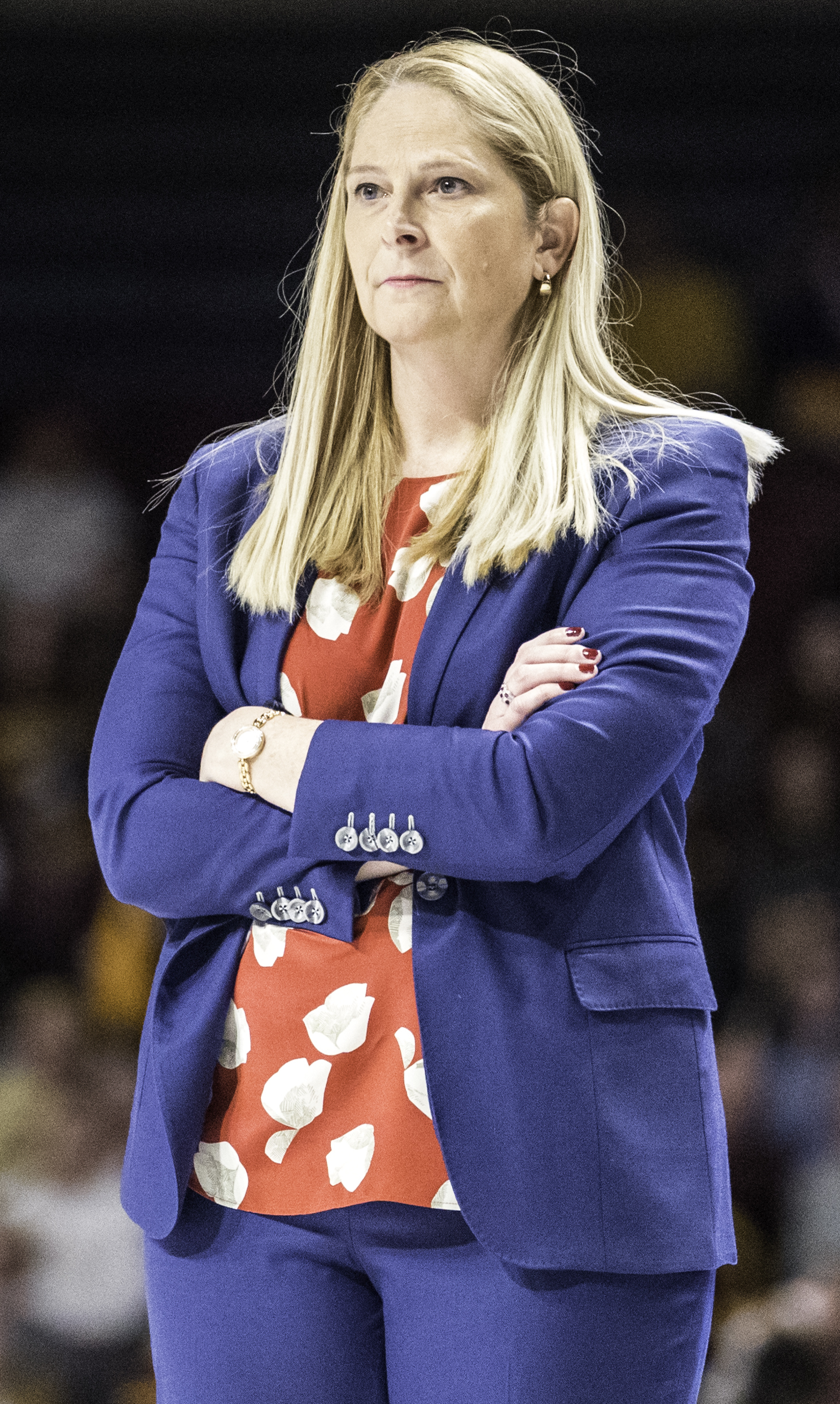 Brenda Frese head coach of the University of Maryland women's basketball team at a game against Minnesota